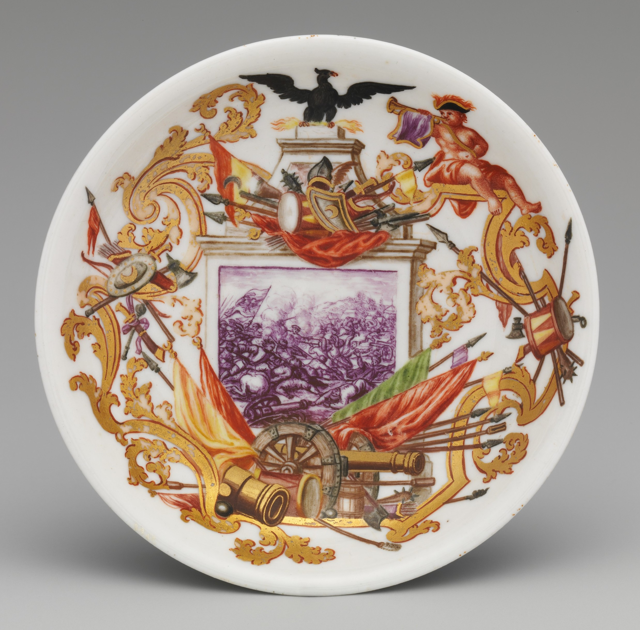 Austrian, Vienna with German, Breslau decoration; Saucer; Ceramics-Porcelain